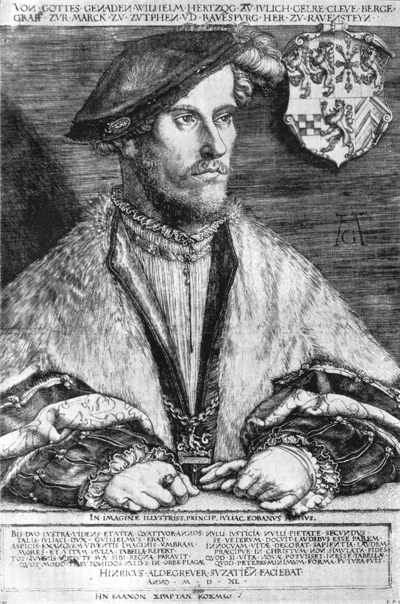 William V of Jülich-Cleves-Berg